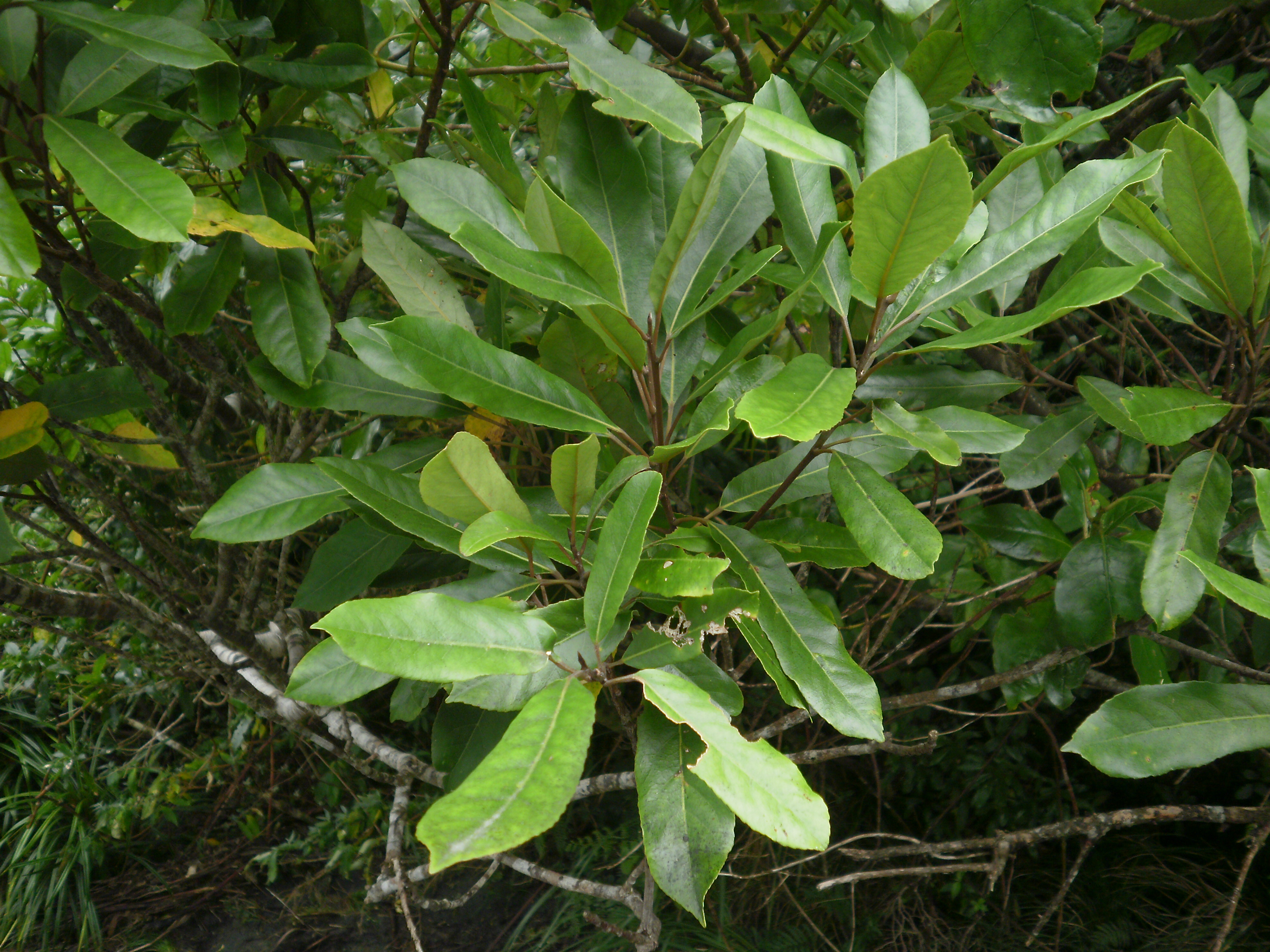 Elaeocarpus dentatus, hinau, foliage in the Orongorongo valley, Wellington, New Zealand.